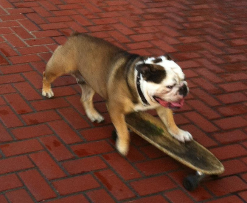 Tillman the dog